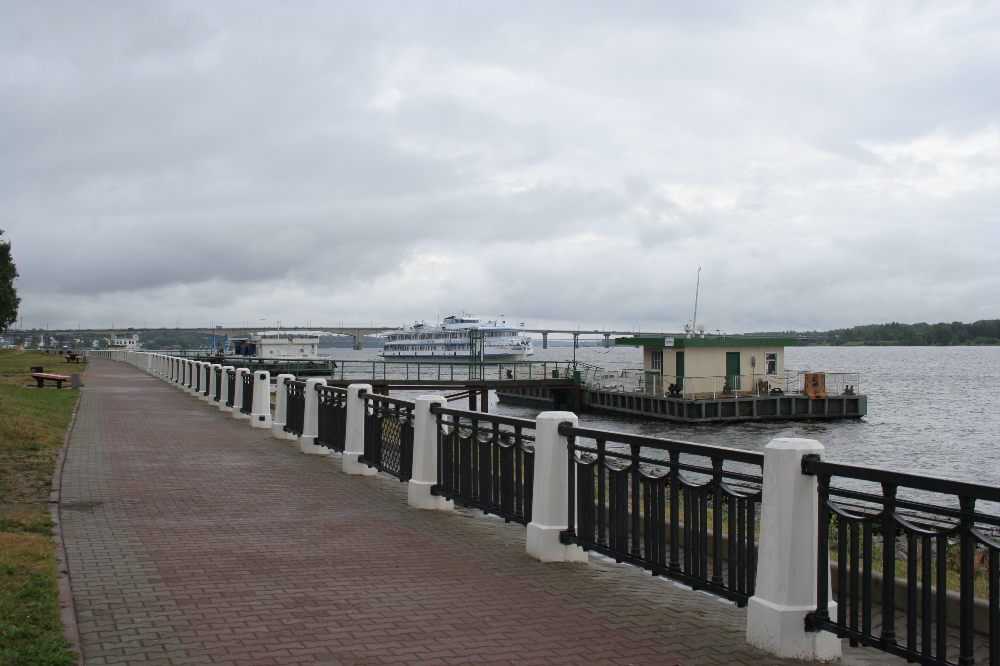 Volga embankment and ship docks in Kostroma, Russia.